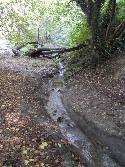 The lower path through Speckled Wood alongside the river ore stream which is a surprising stream that flows gently on some days and turns into a full force bore of water on others.